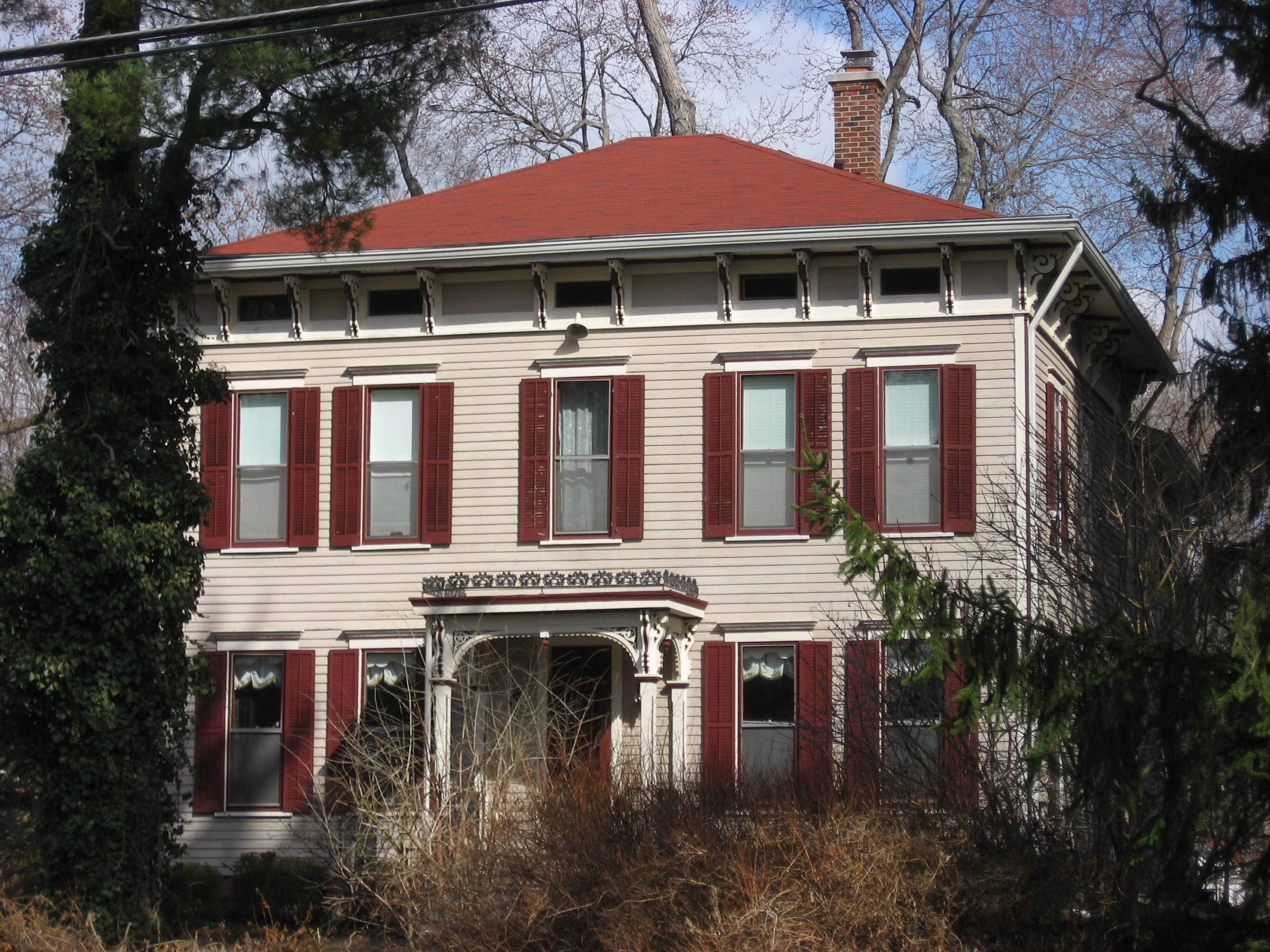 Front of the farmhouse at the Hiram A. Haverstick Farmstead, located at 7845 Westfield Boulevard in Indianapolis, Indiana, United States. Built in 1879, it is listed on the National Register of Historic Places.